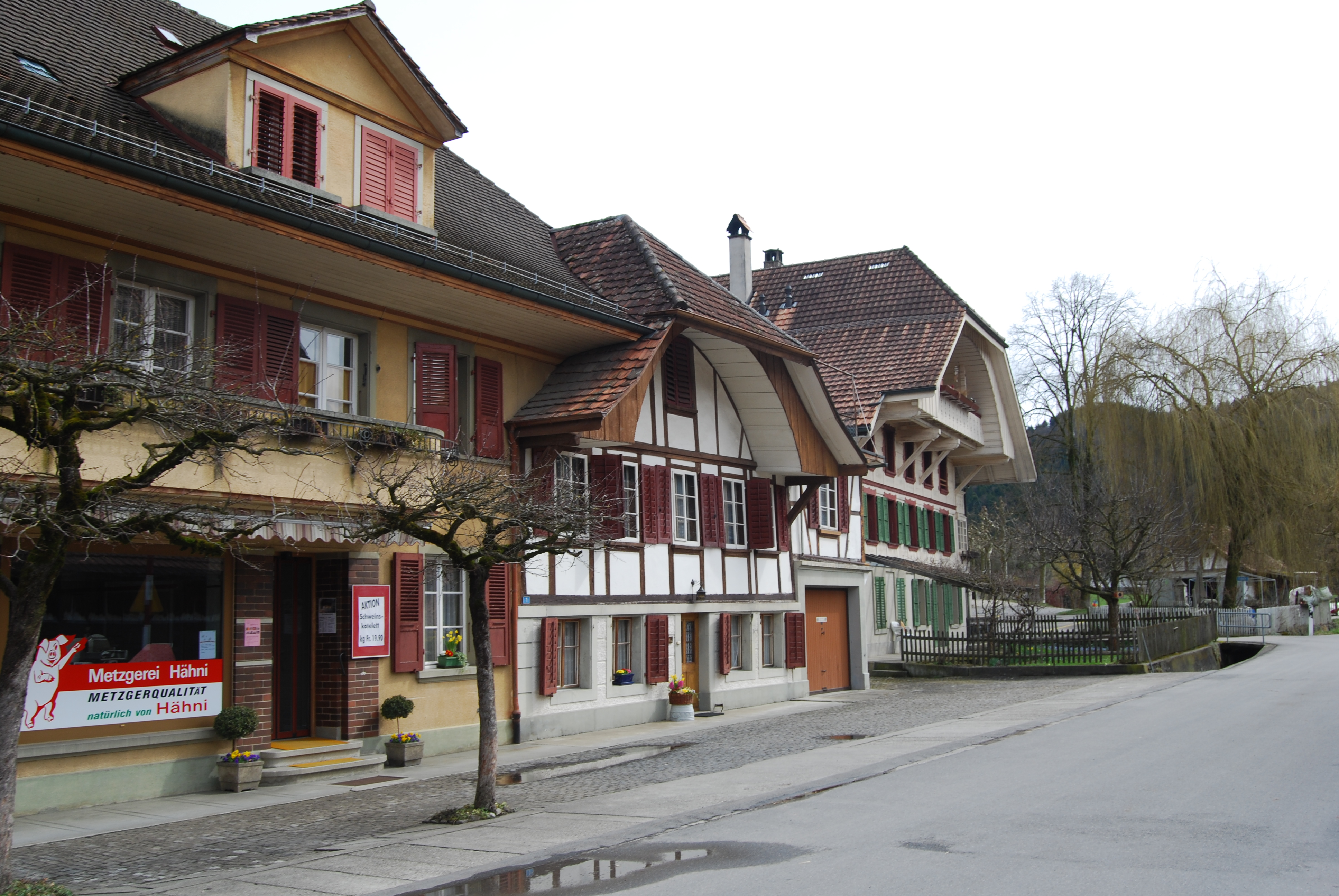 Timber framining houses in the center of Krauchthal, canton of Bern, SwitzerlandEsperanto: Faktrabdomoj en la centro de Krauchthal, Kantono Berno, Svislando